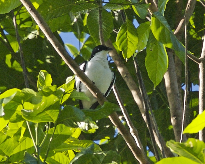 Black-browed Triller Lalage atrovirens ssp Lalage atrovirens leucoptera Biak, Papua, Indonesia 15th. January 2008 Had the opportunity to stop by for a day returning to Singapore from Jayapura, capital of Papua (renamed from Irian Jaya). _Q0S6496